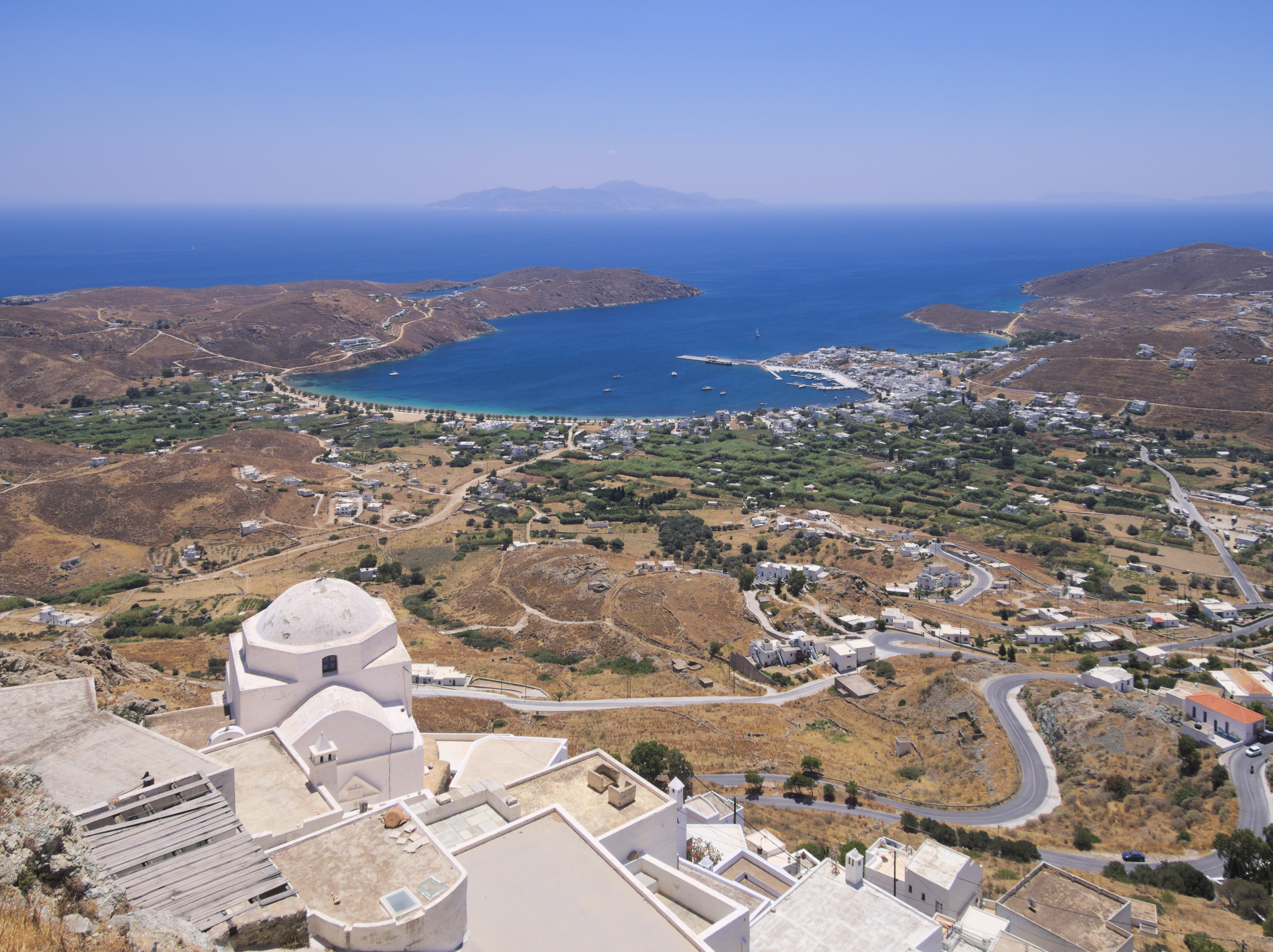 View from the castle of Serifos towards Livadi (the main port).